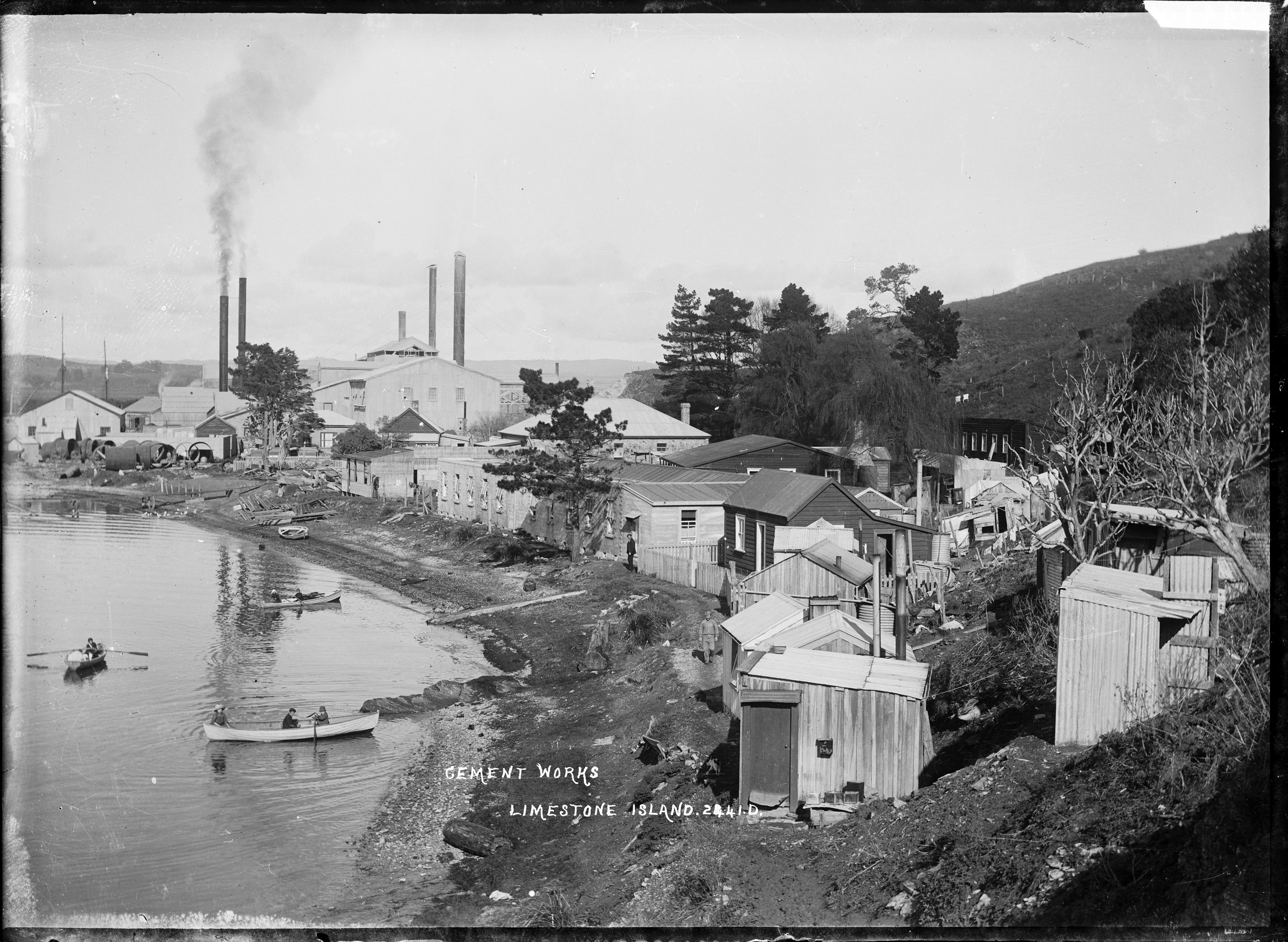 A view of the shoreline at Limestone Island, showing the cement works, and other buildings. Three rowing boats are drifting towards the shore. Photograph taken by William A Price in early 1900s. Inscriptions: Inscribed - Photographer's title on negative -bottom centre: Cement works. Limestone Island. 2441.D. Quantity: 1 b&w original negative(s). Physical Description: Dry plate glass negative 4.75 x 6.5 inches Cement works at Limestone Island, Whangarei Harbour. Price, William Archer, 1866-1948 :Collection of post card negatives. Ref: 1/2-001787-G. Alexander Turnbull Library, Wellington, New Zealand.